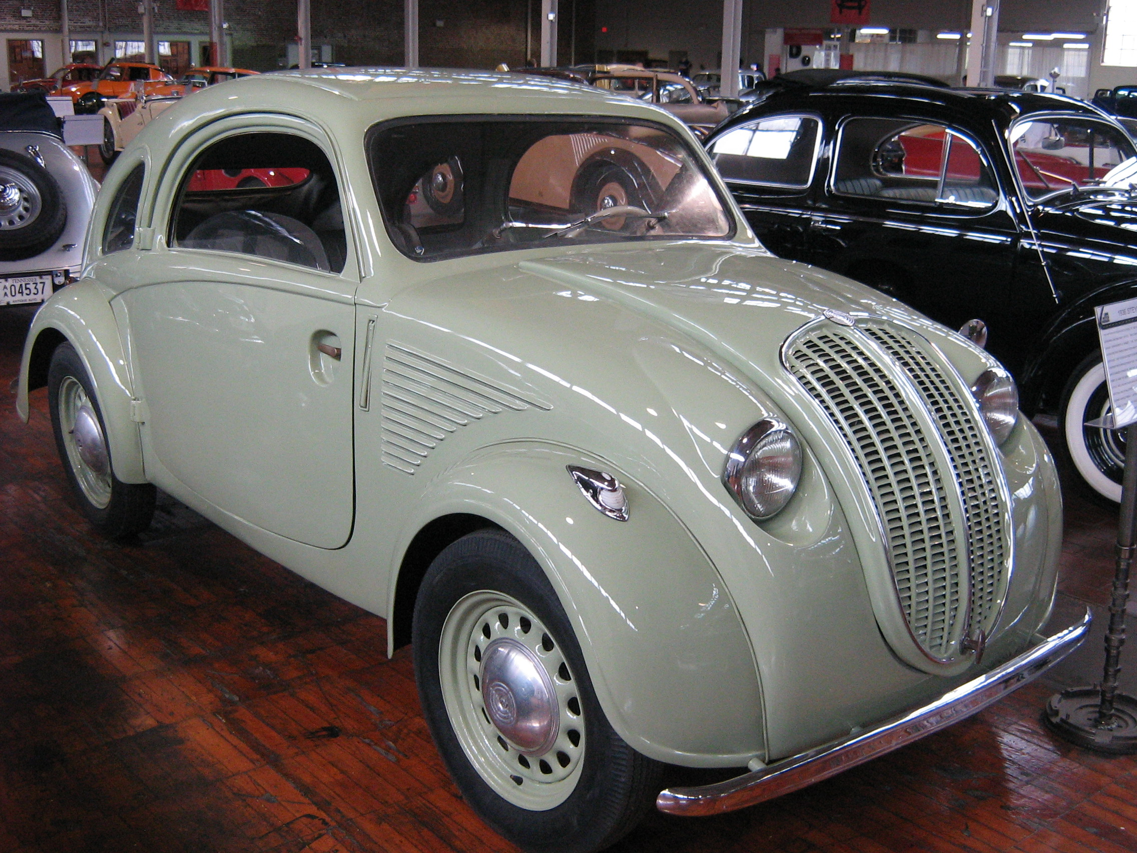 A 1936 Steyr 50 at Lane Motor Museum in Nashville